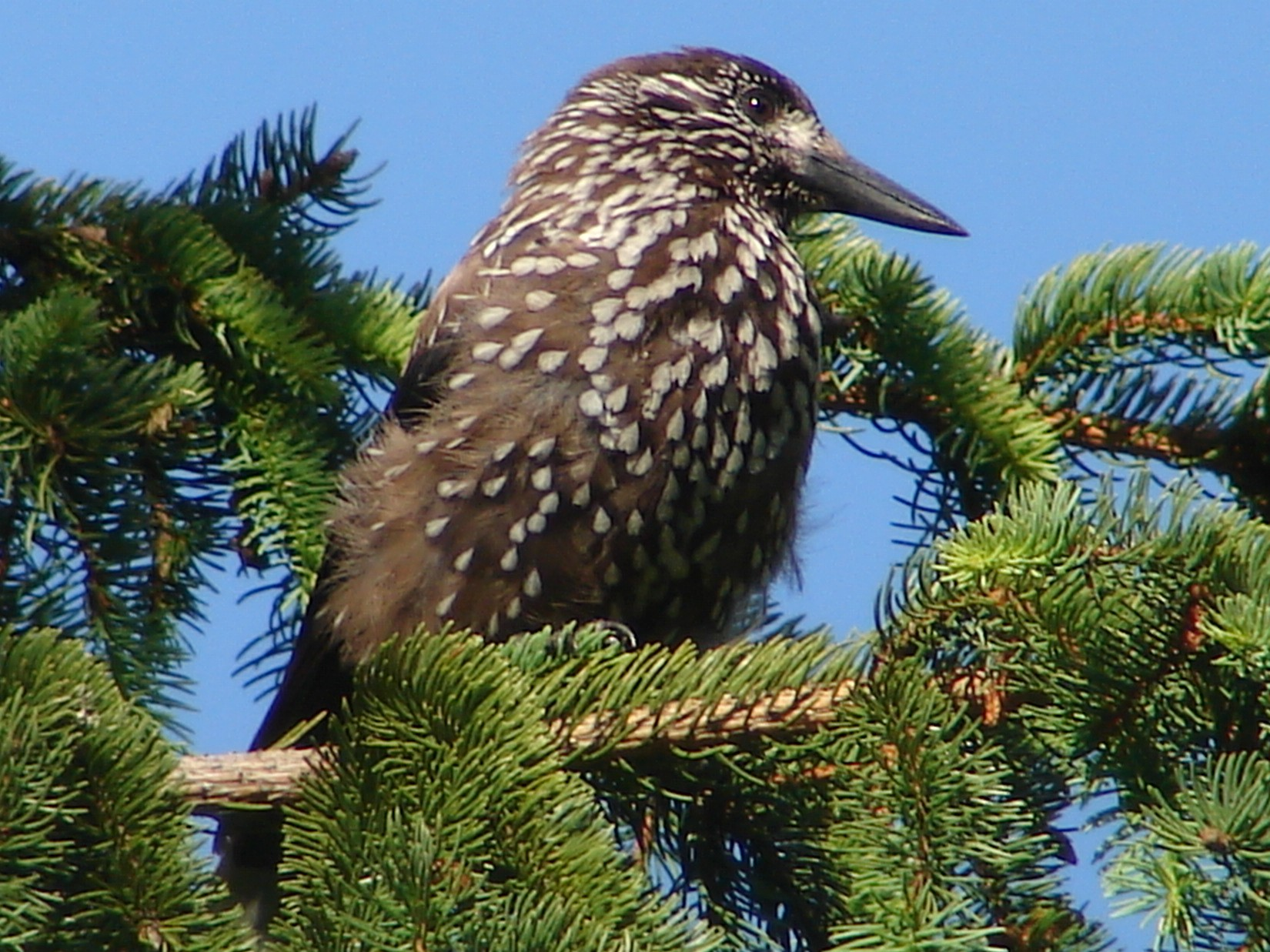 Tannenhäher, Spotted Nutcracker, Nucifraga caryocatactes